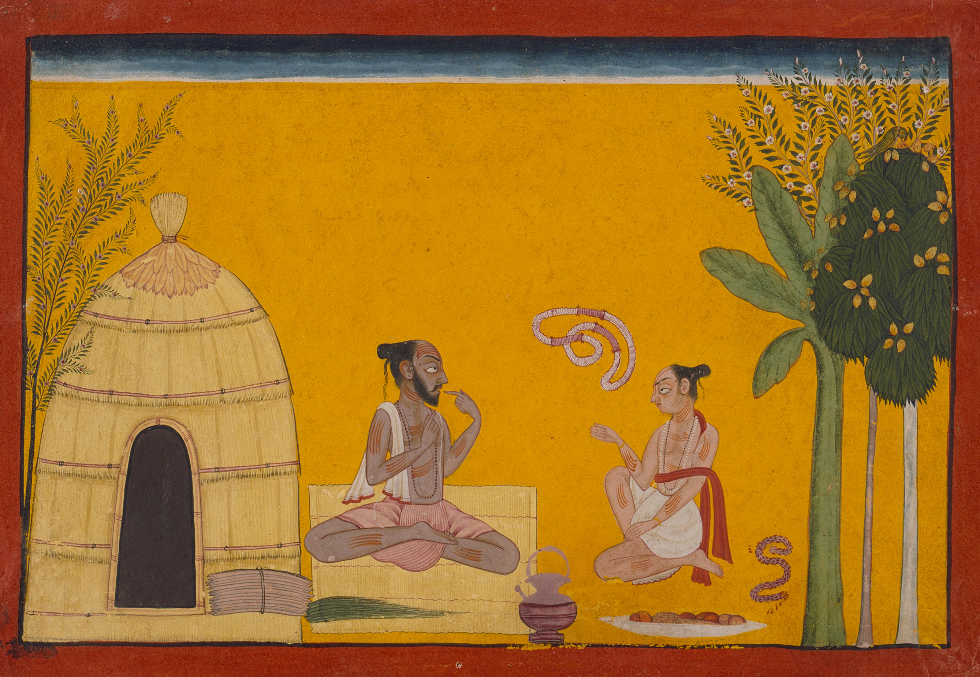 India, Jammu and Kashmir, Bahu, circa 1700-1710 Drawings; watercolors Opaque watercolor on paper From the Nasli and Alice Heeramaneck Collection, Museum Associates Purchase (M.83.105.9) South and Southeast Asian Art